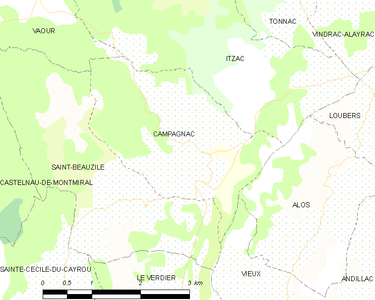 Map of French municipality Campagnac